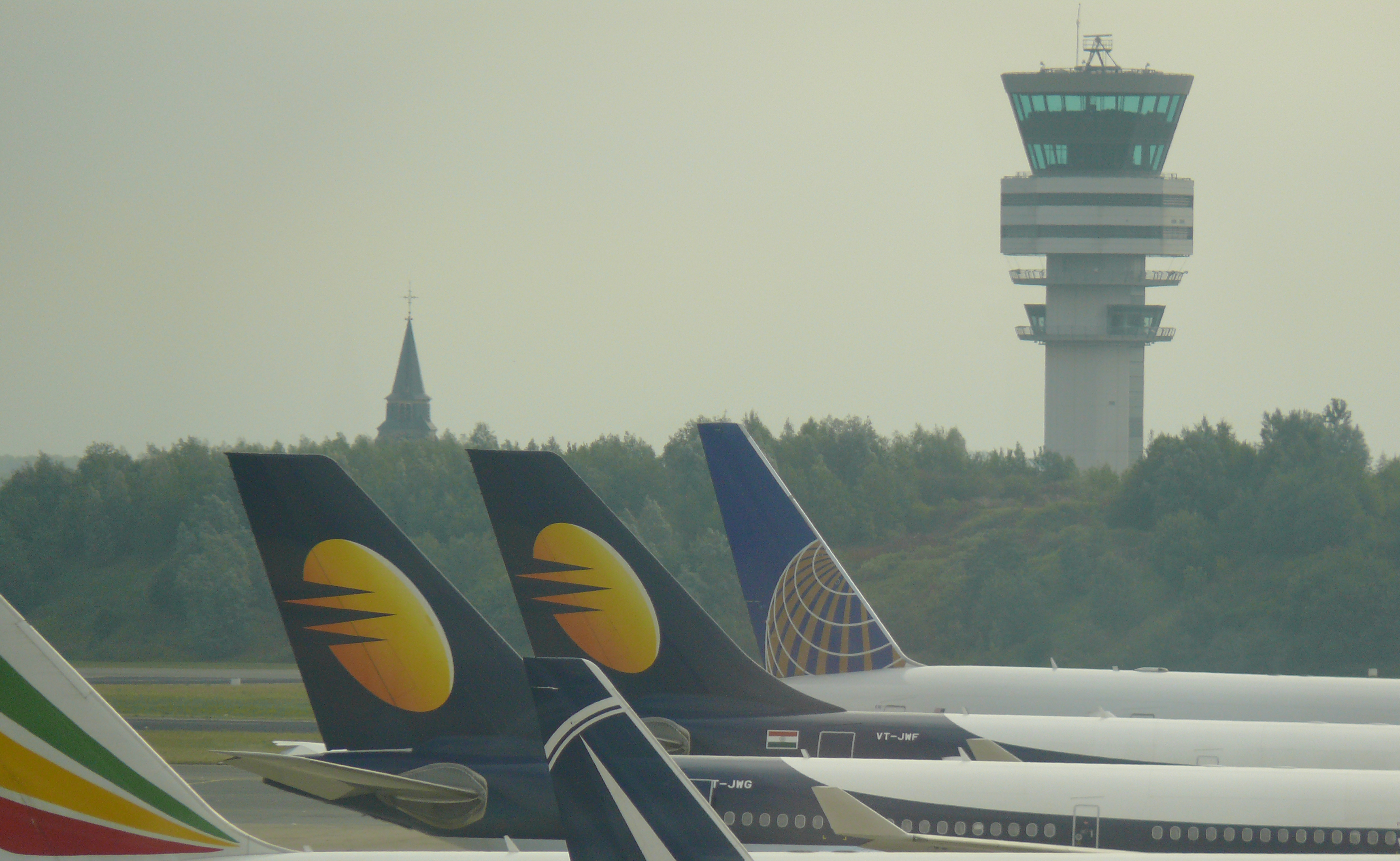 Brussels Airport (also called Zaventem or Brussel Nationaal (Brussels National)) is an international airport located in Zaventem, 6 NM (11 km; 6.9 mi) northeast of Brussels, Belgium.